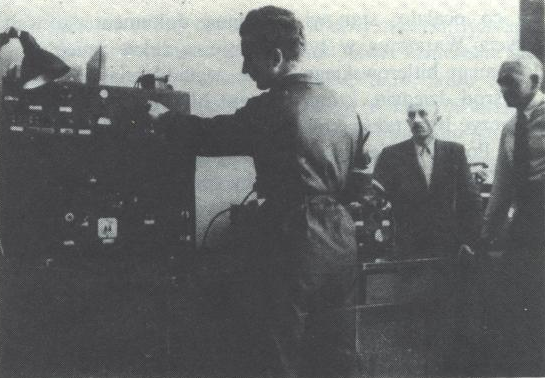 Studio of the Błyskawica radiostation. Warsaw Uprising.